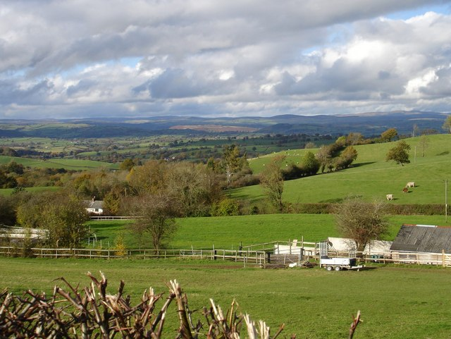 View north from Frongoch